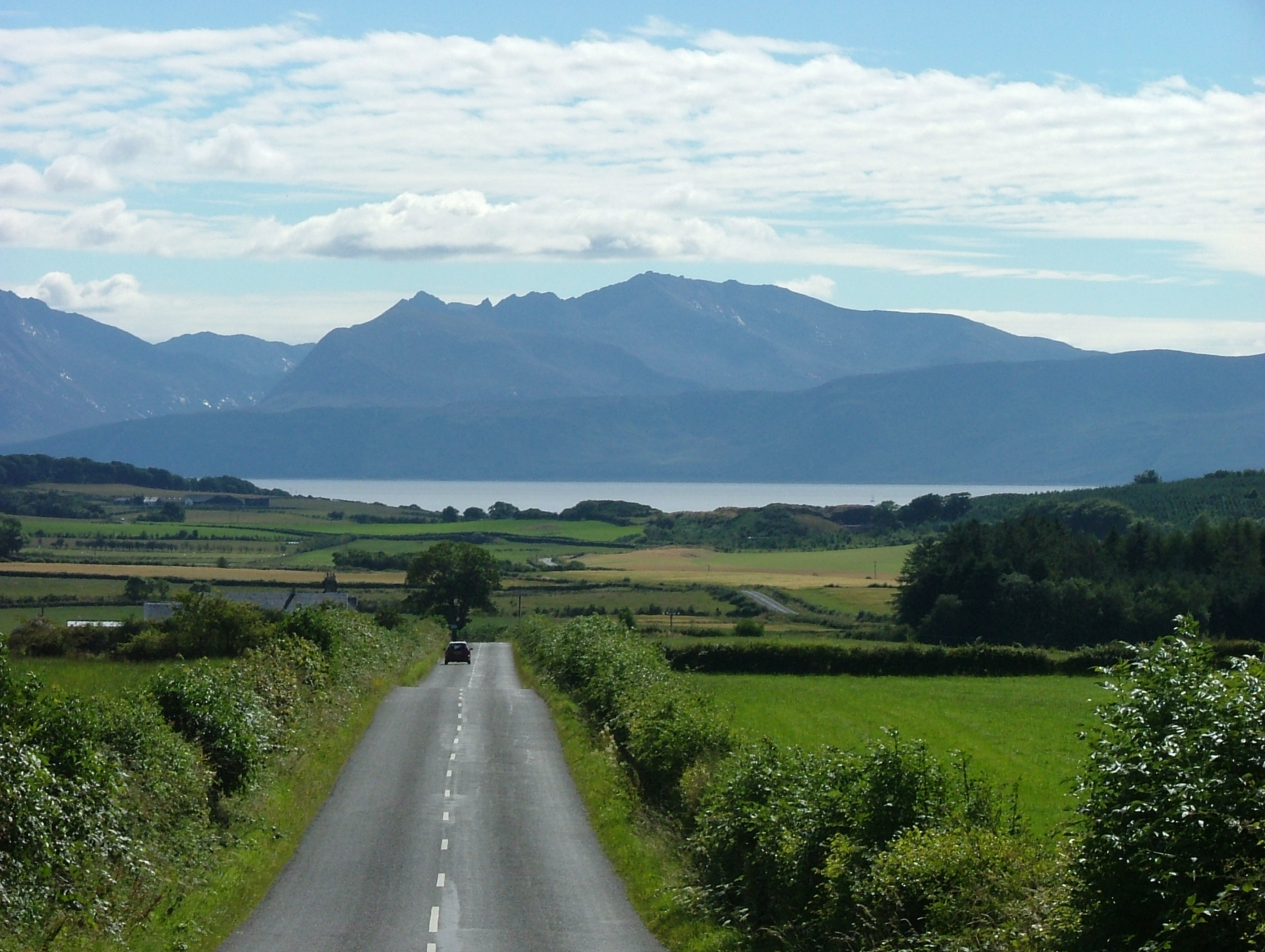 The Sound of Bute photographed from the west road on the Isle of Bute in the Summer of 2005.